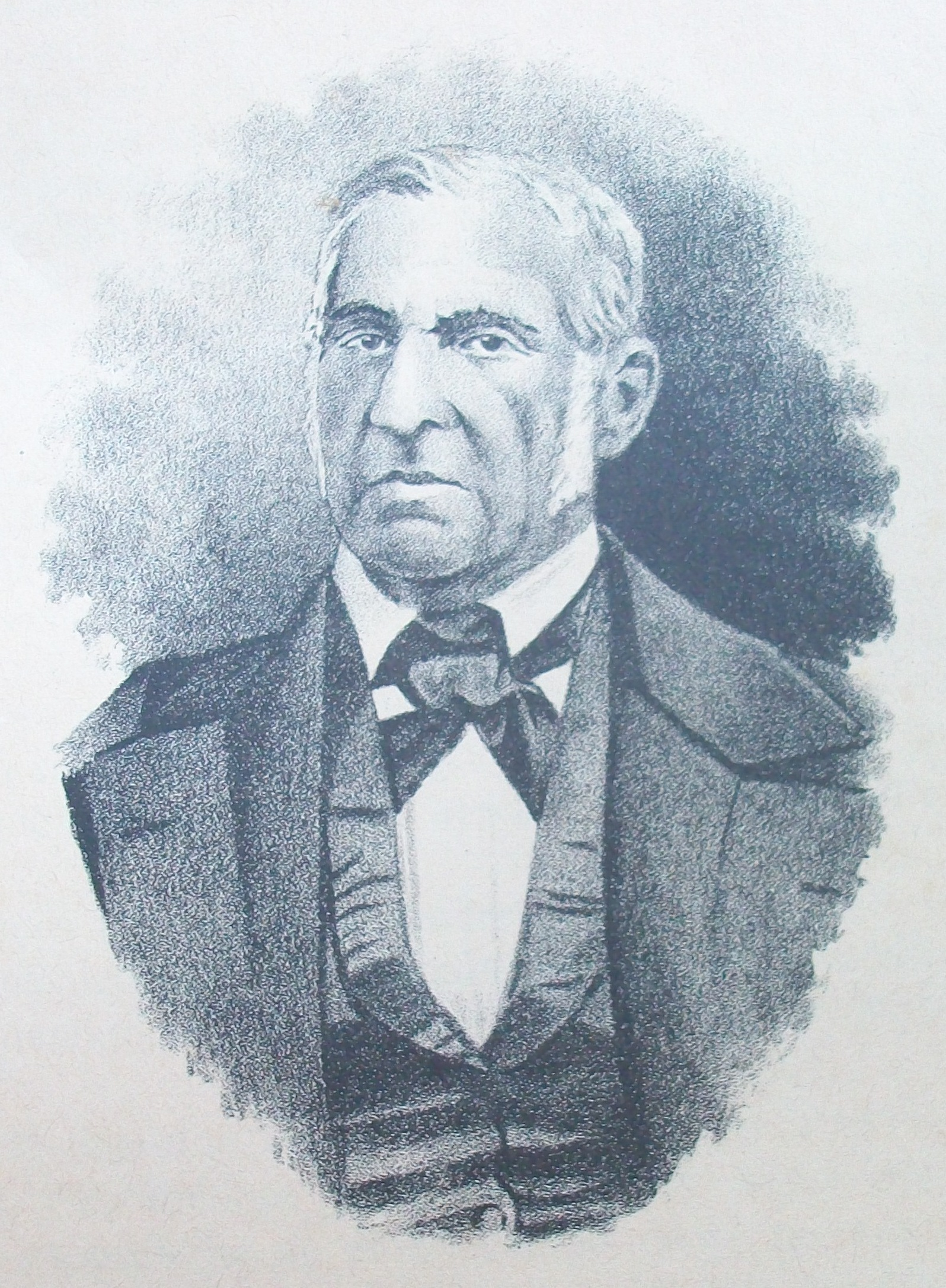 Eustoquio Díaz Vélez.